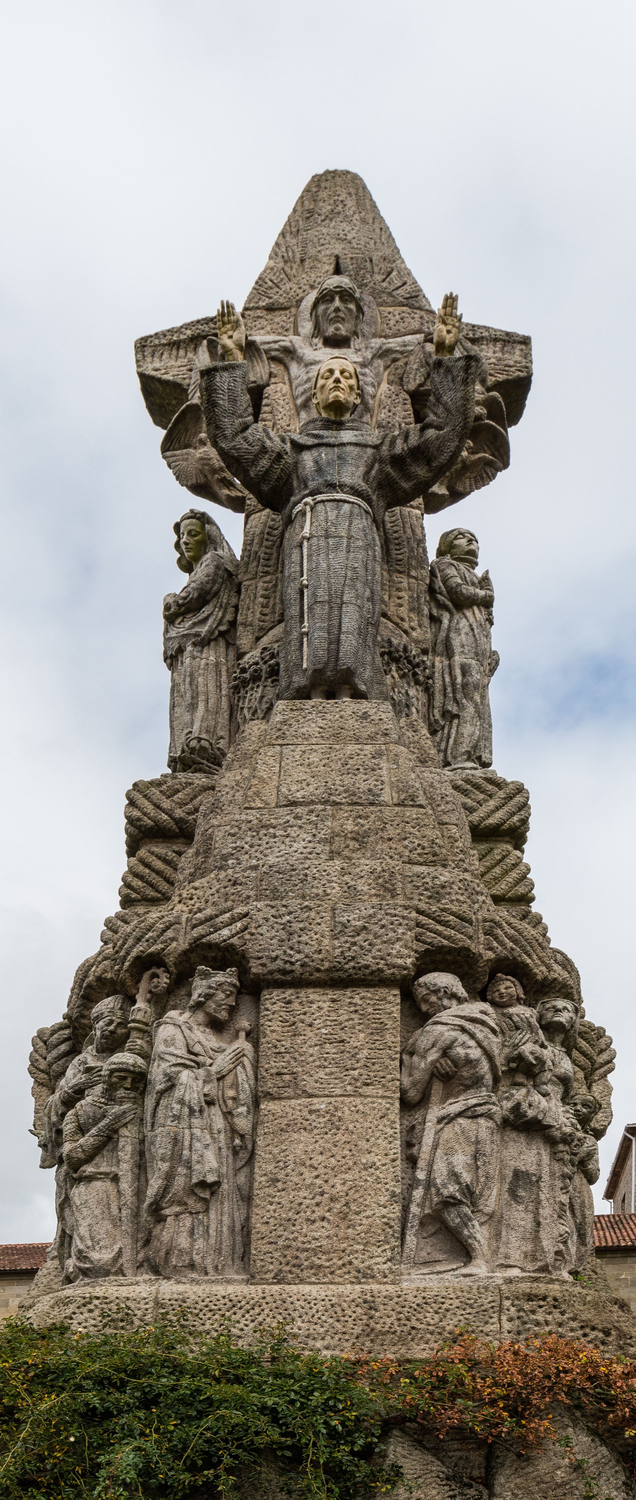 St Franciscus Monastery, Santiago de Compostela, Spain